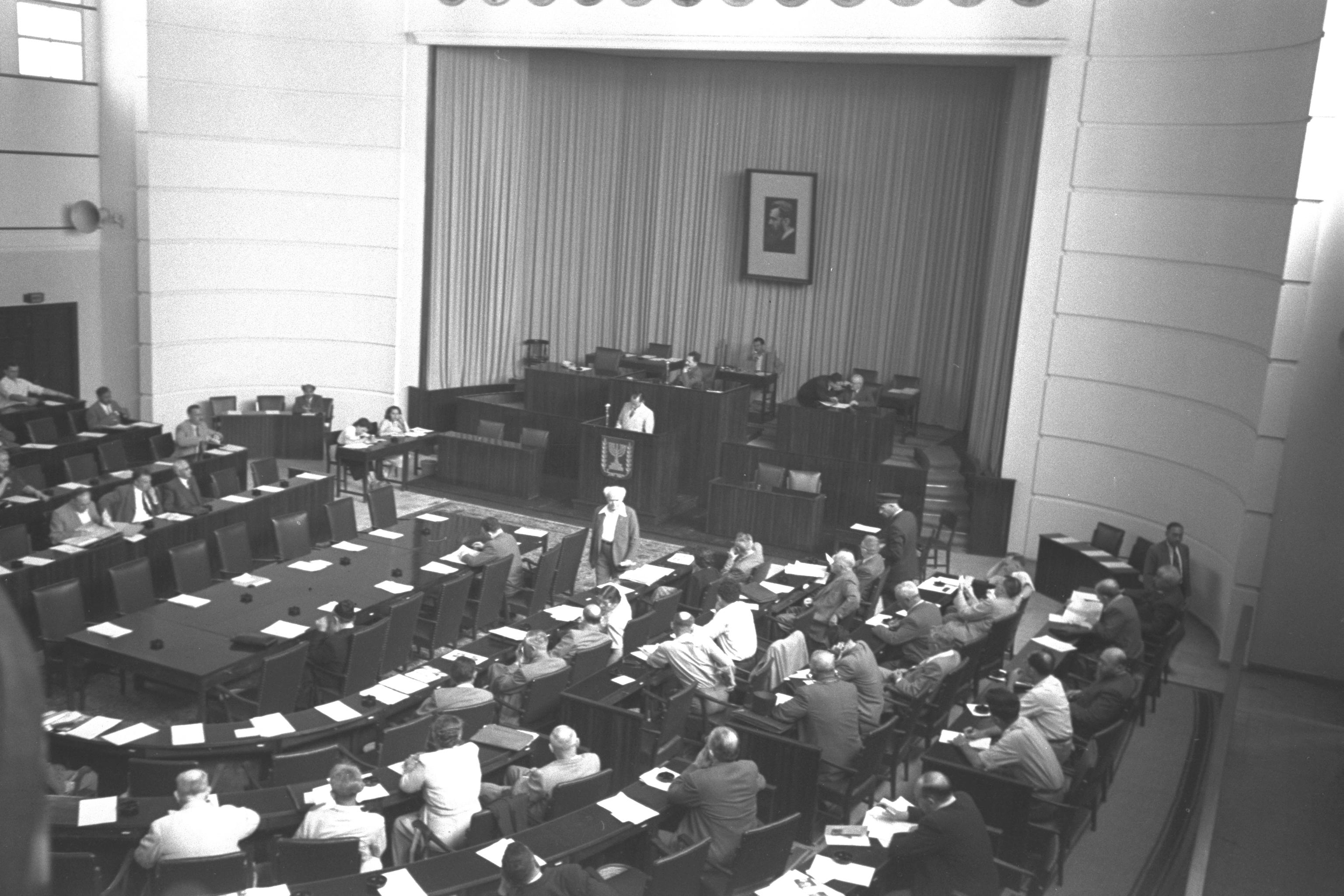 PM David Ben Gurion walks to his seat as Hillel Kook (Herut) Takes his place at the rostrum, at the Knesset in Tel-Aviv. Photograph: GPO. 01/05/1949.